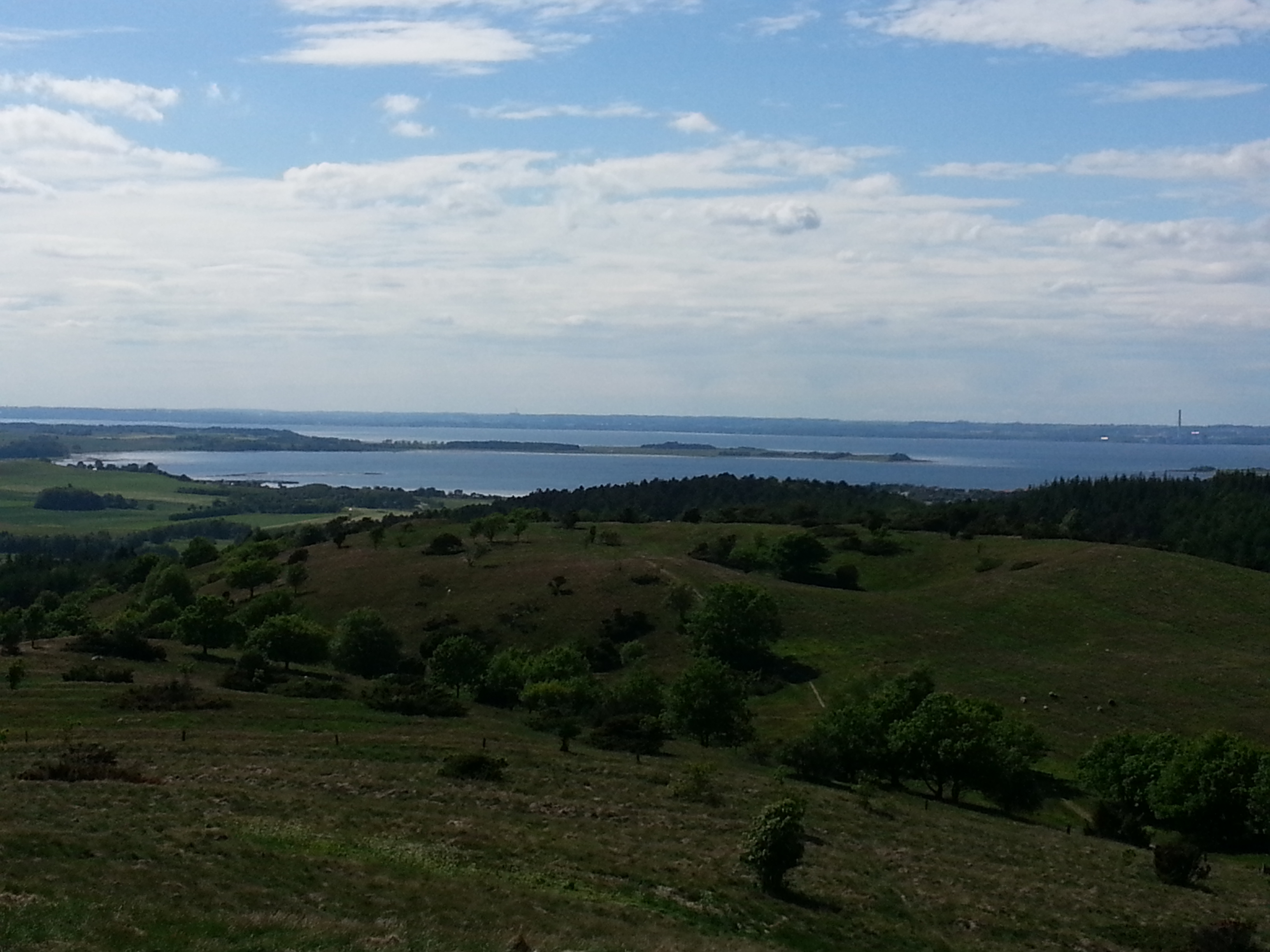 View over Knebel Vig from Top of Trehøje. At the far end across Kalø Vig the smokestack of Studstrup Power Plant.